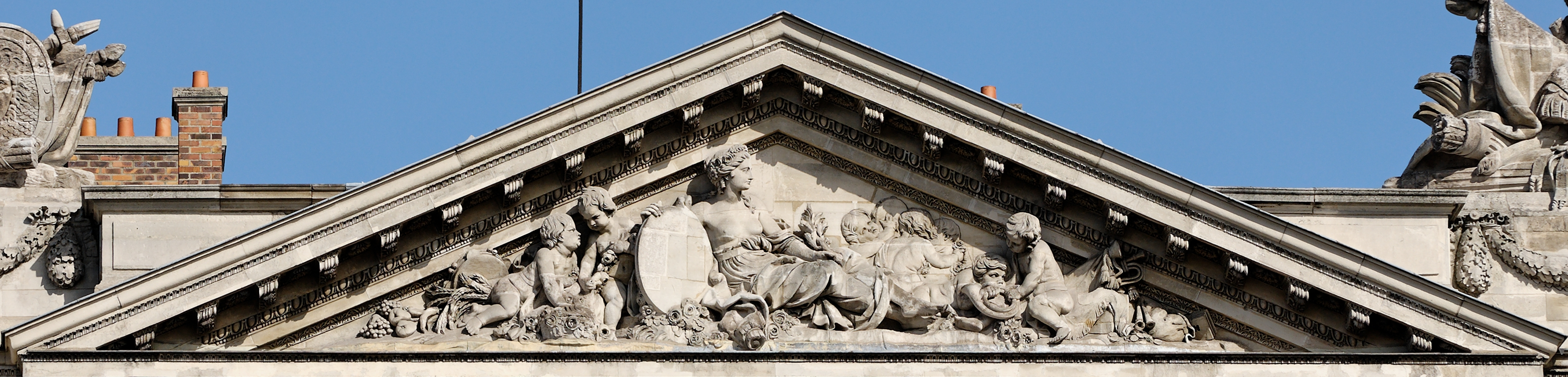 Public felicity by Guillaume Coustou the Younger and Michel-Ange Slodtz, right-hand side pediment of the Hôtel de la Marine. Place de la Concorde, 8th arrondissement of Paris.